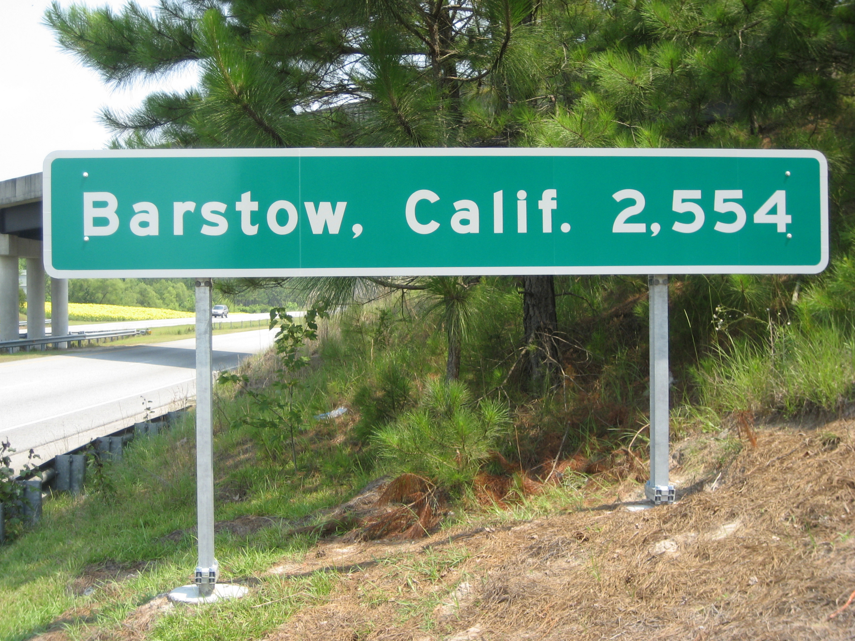 Barstow, Calif. distance sign, as seen outside Wilmington, NC